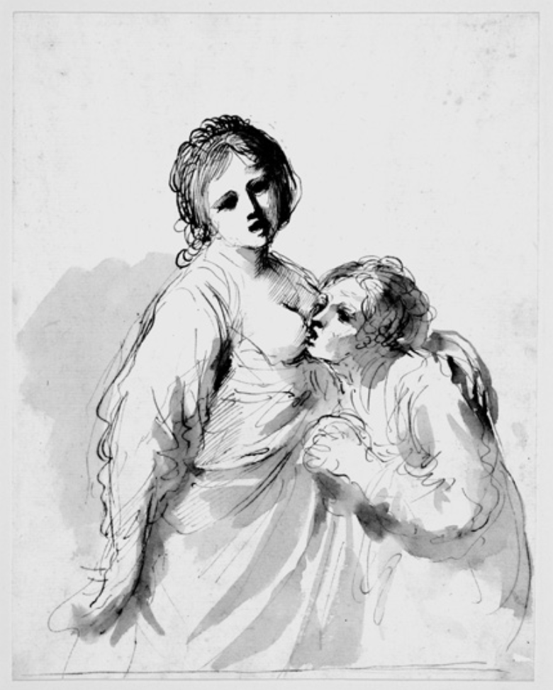 An unnamed Roman girl breastfeeds her mother who has been sentenced to death by starvation.